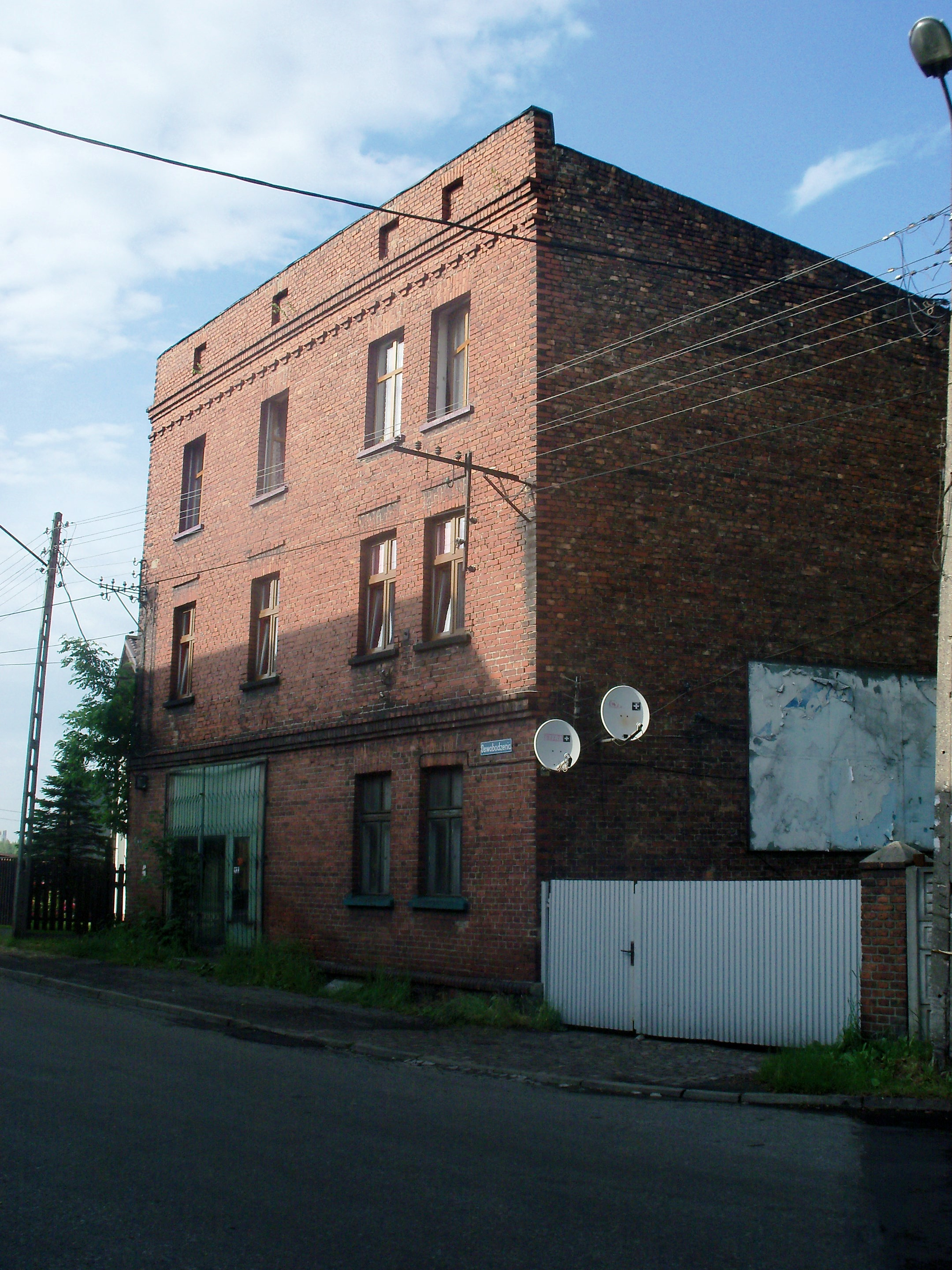 Oswobodzenia Street in Katowice